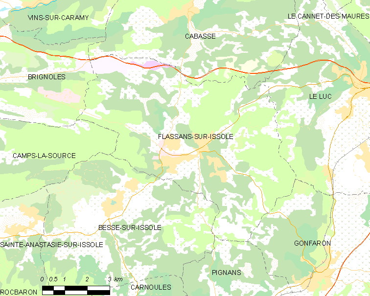 Map of French municipality Flassans-sur-Issole